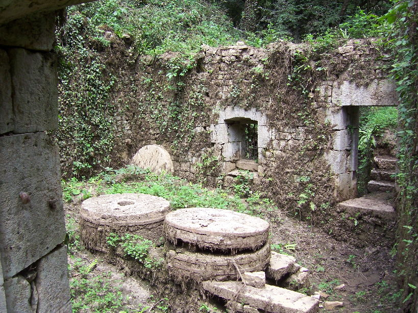 Ruins of an old watermill near the sink of Ouysse river in town Thémines in France.